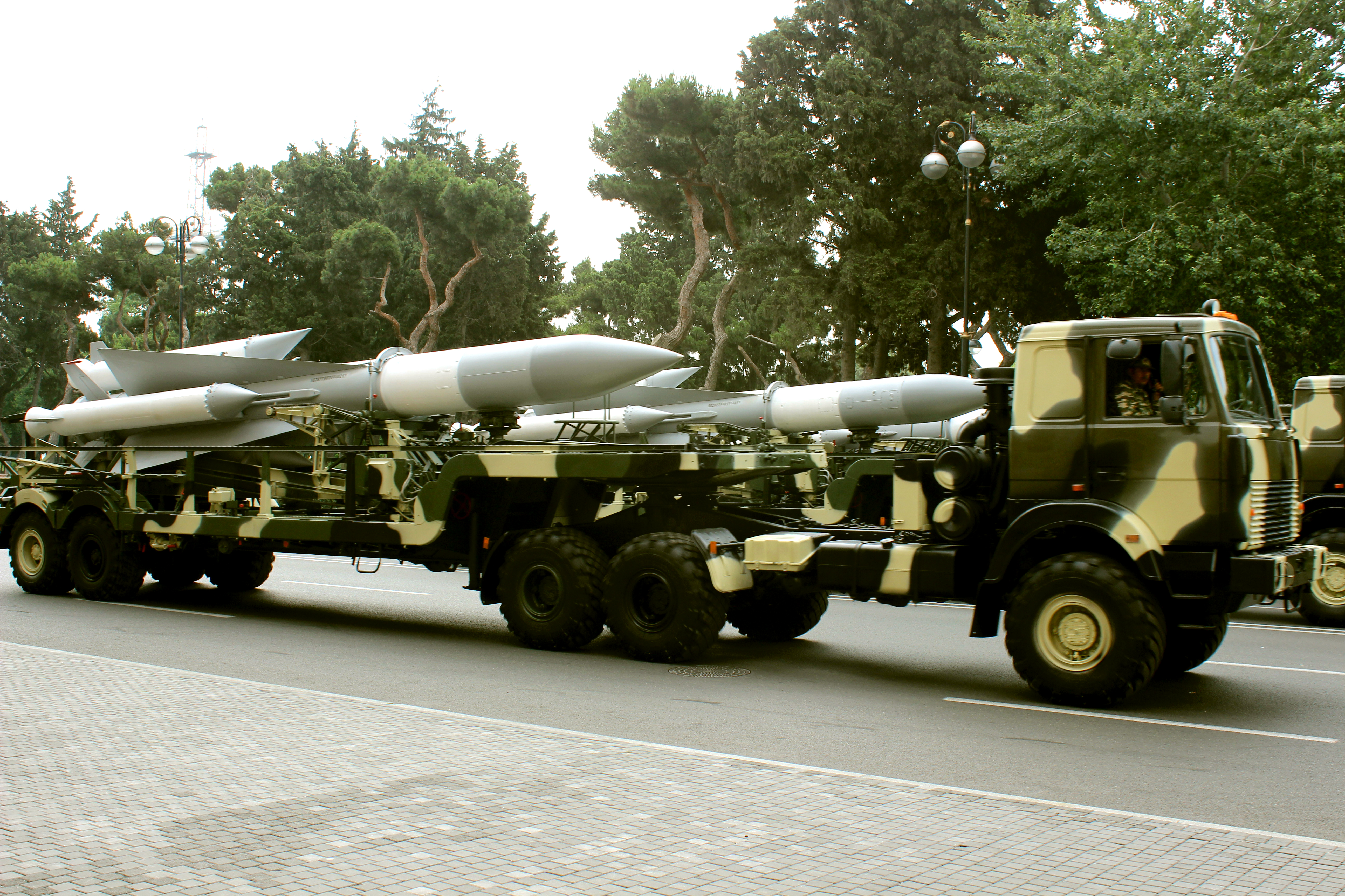 Military parade in Baku 2013